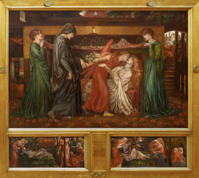 Dante's Dream-Rossetti (replica with predella) (original frame).